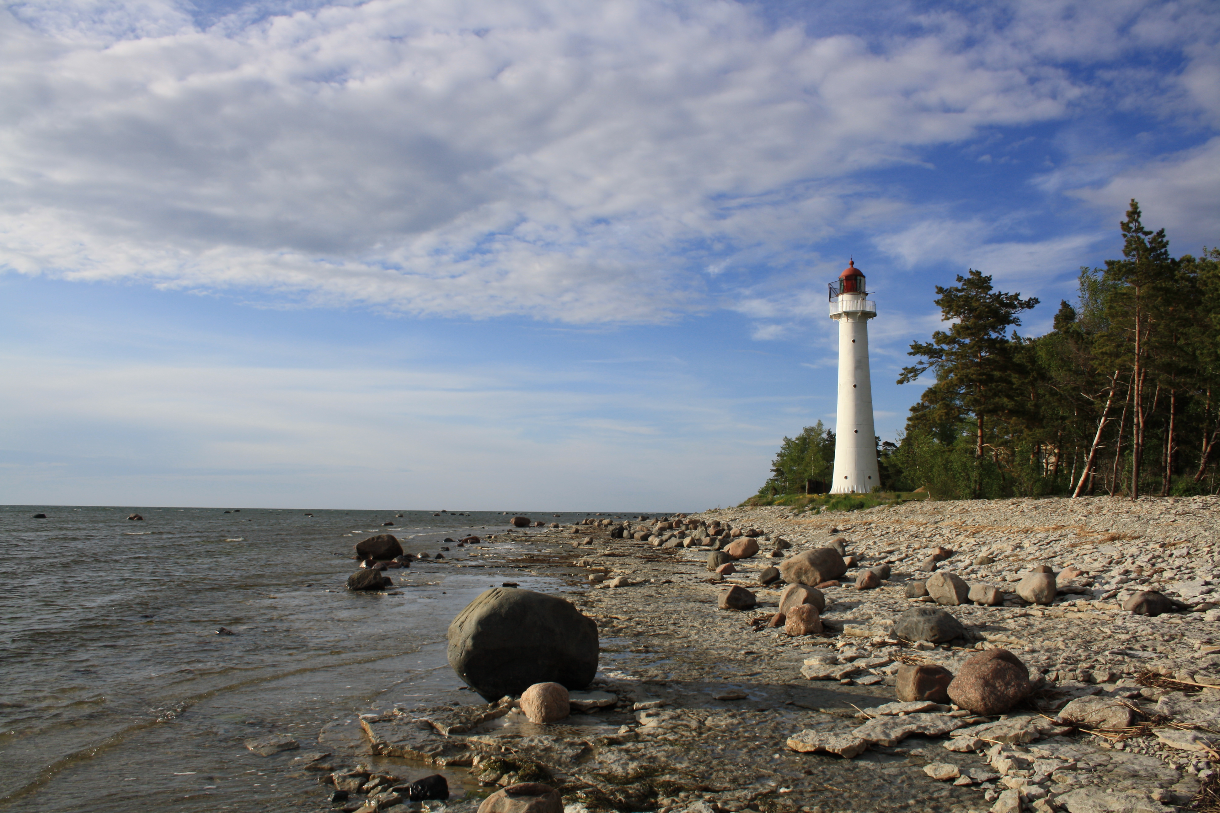 Saxby lighthouse on the western coast of Vormsi island in Estonia